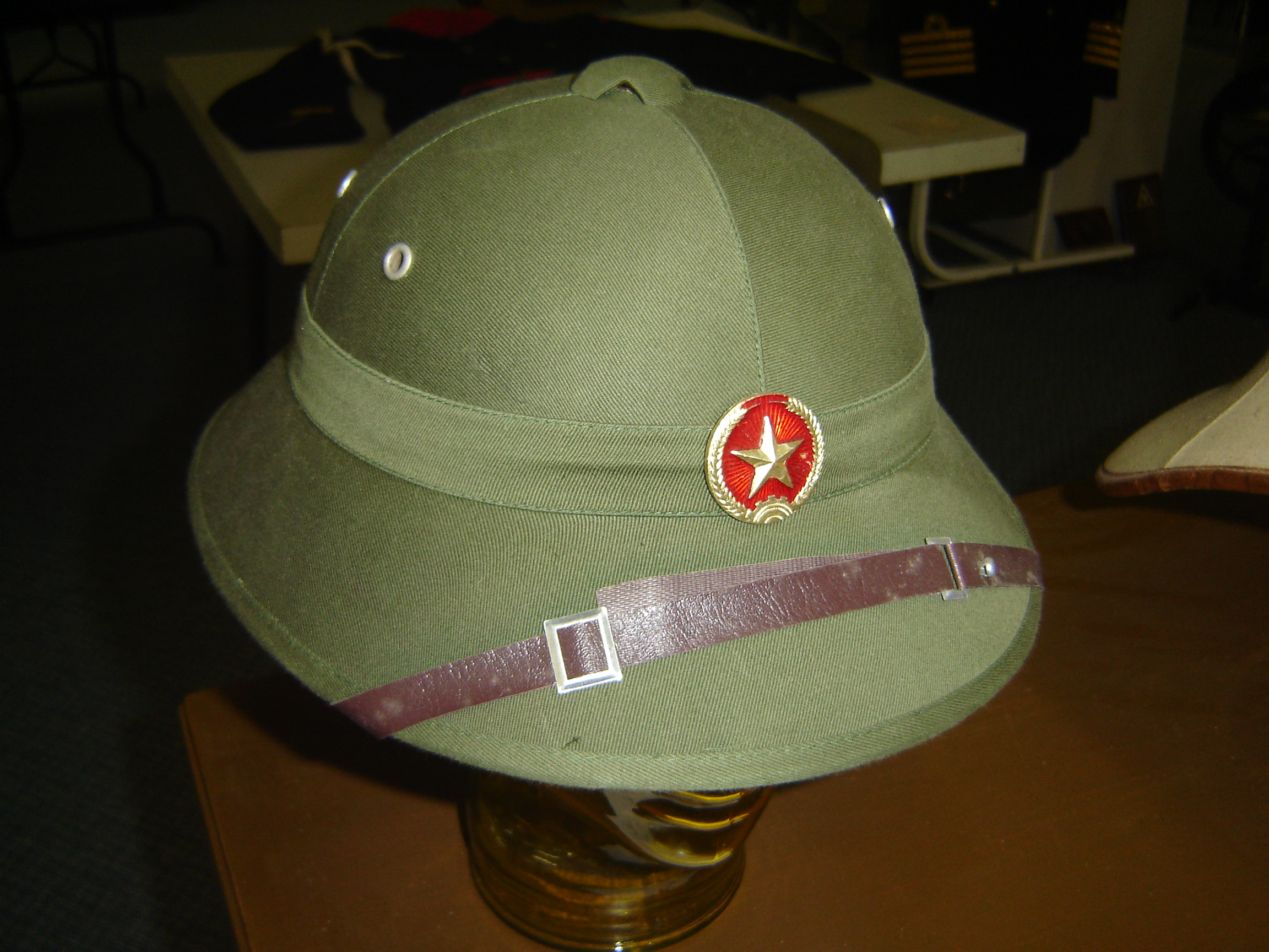 Reproduction version of a North Vietnamese Army (NVA) pith helmet.